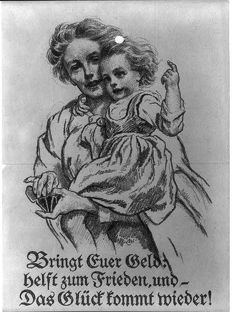 Title: Bringt Euer Geld - helft zum Frieden, und - Das Glück kommt wieder! / Winckel. Abstract/medium: 1 photomechanical print : halftone ; 34 x 23.6 cm (sheet)